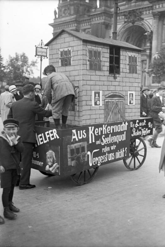 Das große Pfingsttreffen der Rot-Front-Kämpfer im Lustgarten in Berlin! Ein Propagandawagen für die Rote Hilfe im Lustgarten in Berlin. Information added by Wikimedia users.Original historical description says, "The big Whitsun gathering of the Rotfrontkämpfer in the Lustgarten in Berlin. A propaganda wagon for the Rote Hilfe in the Lustgarten in Berlin."